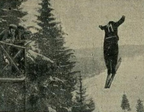 Zygmunt Rajski during ski jumping Championships of Nowy Targ